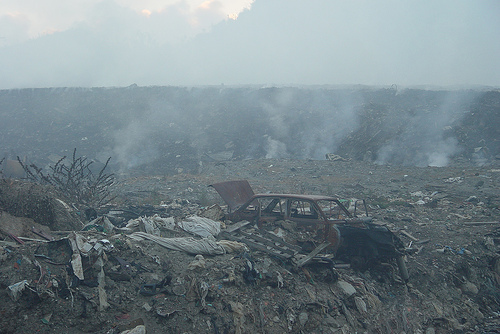 Landfill fire at perseverance watershed. Grenada, W.I. - Grenada Dove Sanctuary is located across the street. Fire was burning continuously during 2005. Images from Grenada Dry Forest Biodiversity Conservation Project